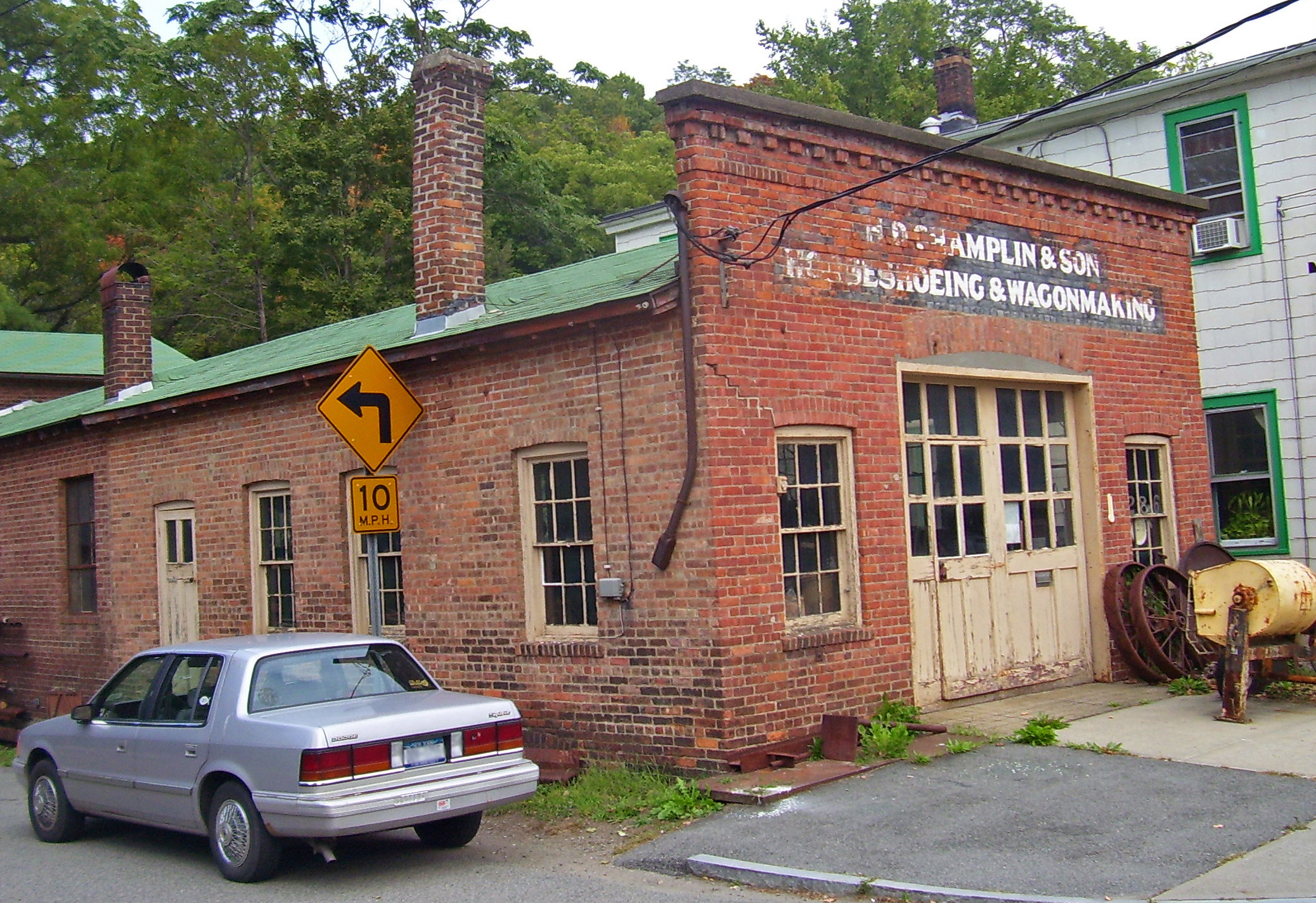 H. D. Champlin & Son Horseshoeing and Wagonmaking in Nelsonville, NY, USA. Vehicle license plate blurred to protect owner's privacy.